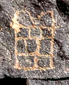 Rock Art